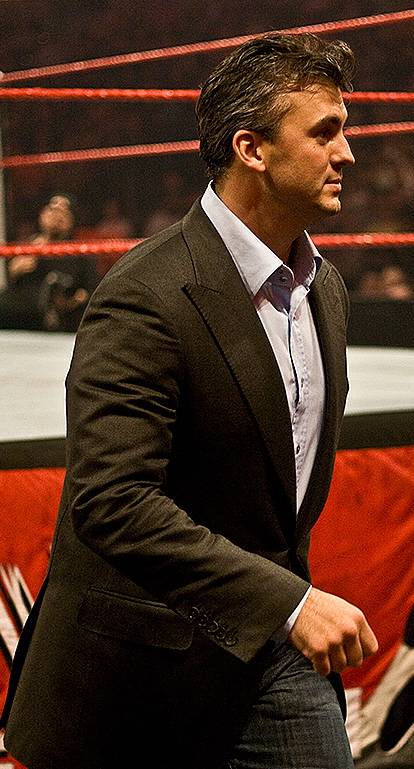 Shane McMahon at a live event on Monday Night Raw in Tampa, Florida 2008.